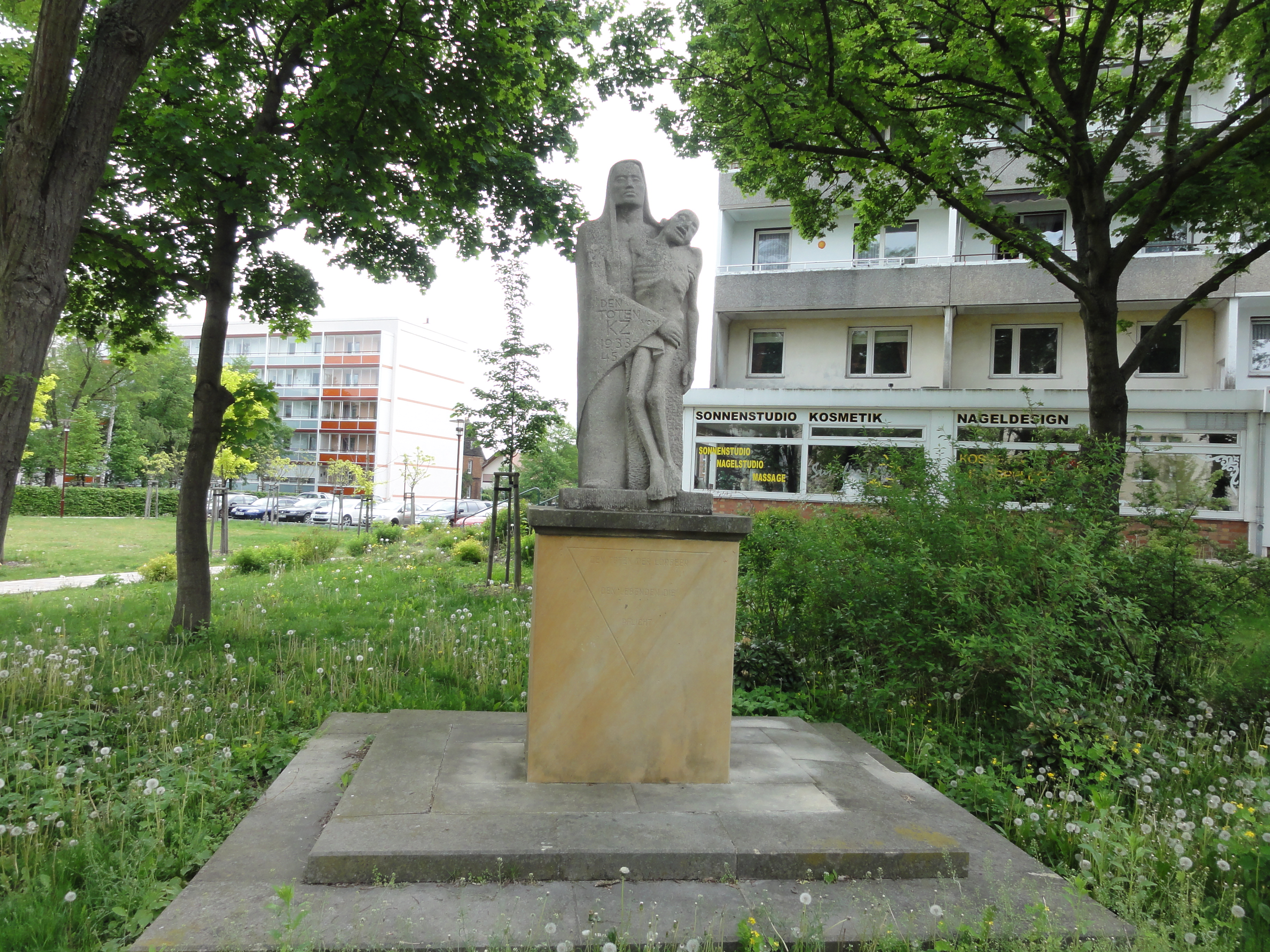 Memorial to the victims of the Concentration Camp in Weißwasser, Muskauer Straße; created by Gustav Seitz, erected after 1945; cultural heritage monument inscription:To the victims of the concentration camp 1933–45laurels to the dead – obligation to the living